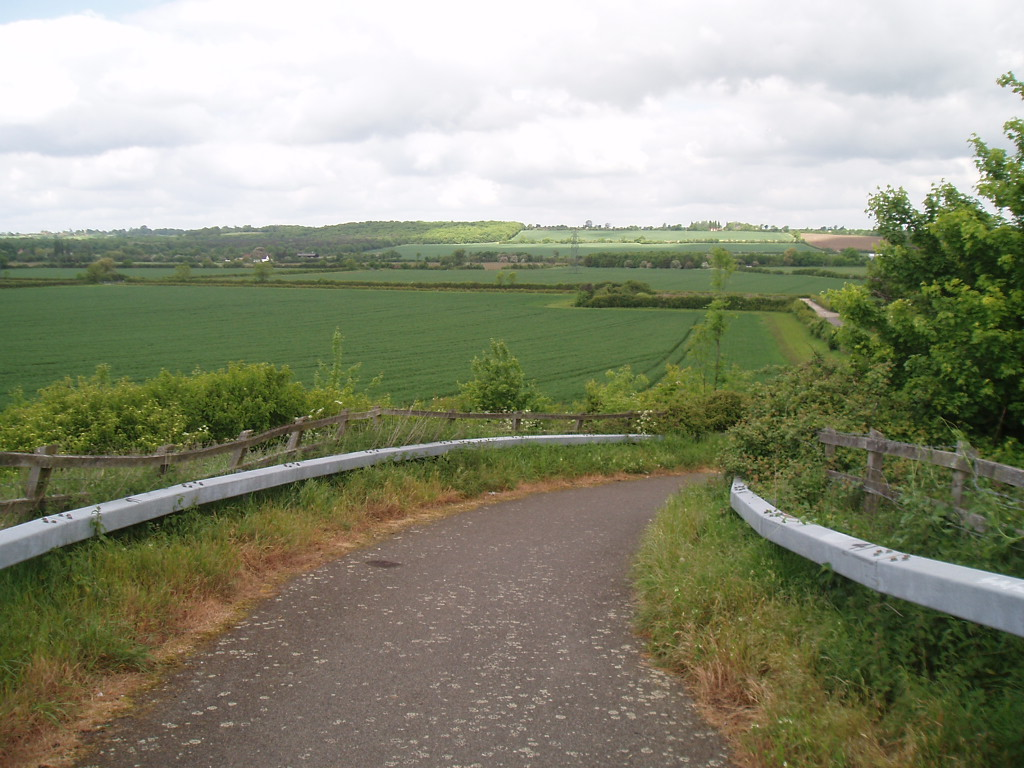 View of the NCR 51 cycleway from Marston Moretaine looking towards Cranfield, as it crosses the A421